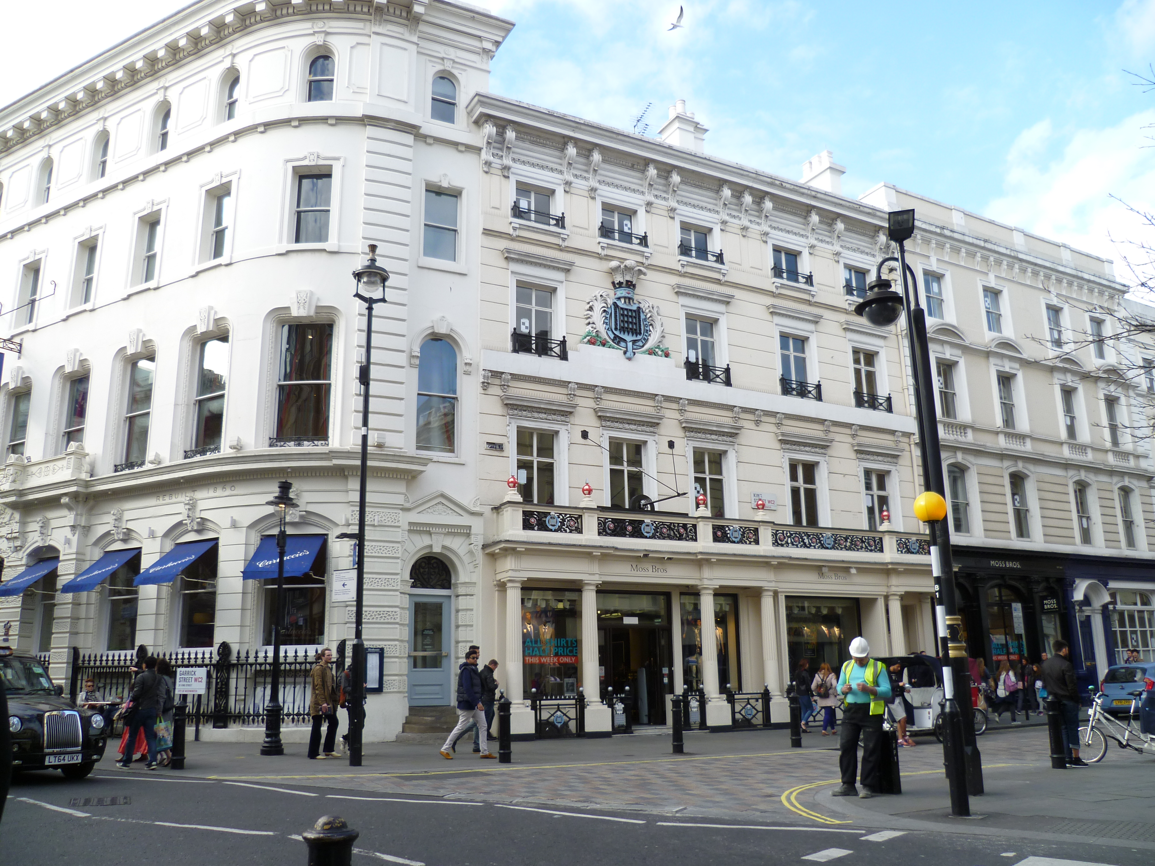 London